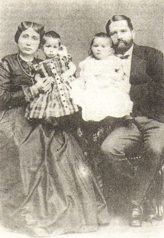 Salma bent Said bin Sultan (Emily Ruete) with her husband Heinrich Ruete and two children.